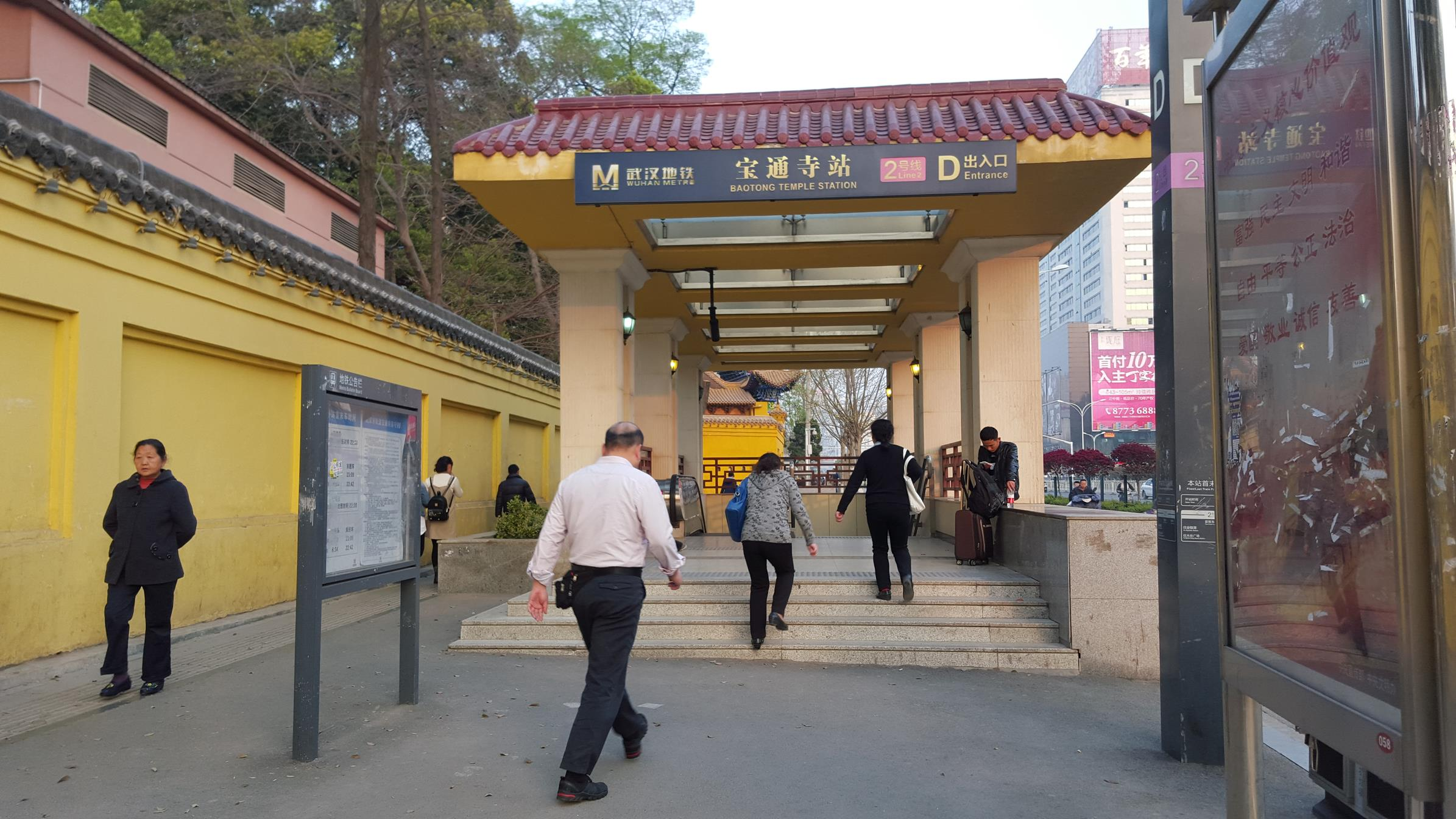 Entrance D of Baotong Temple Station, Wuhan Metro